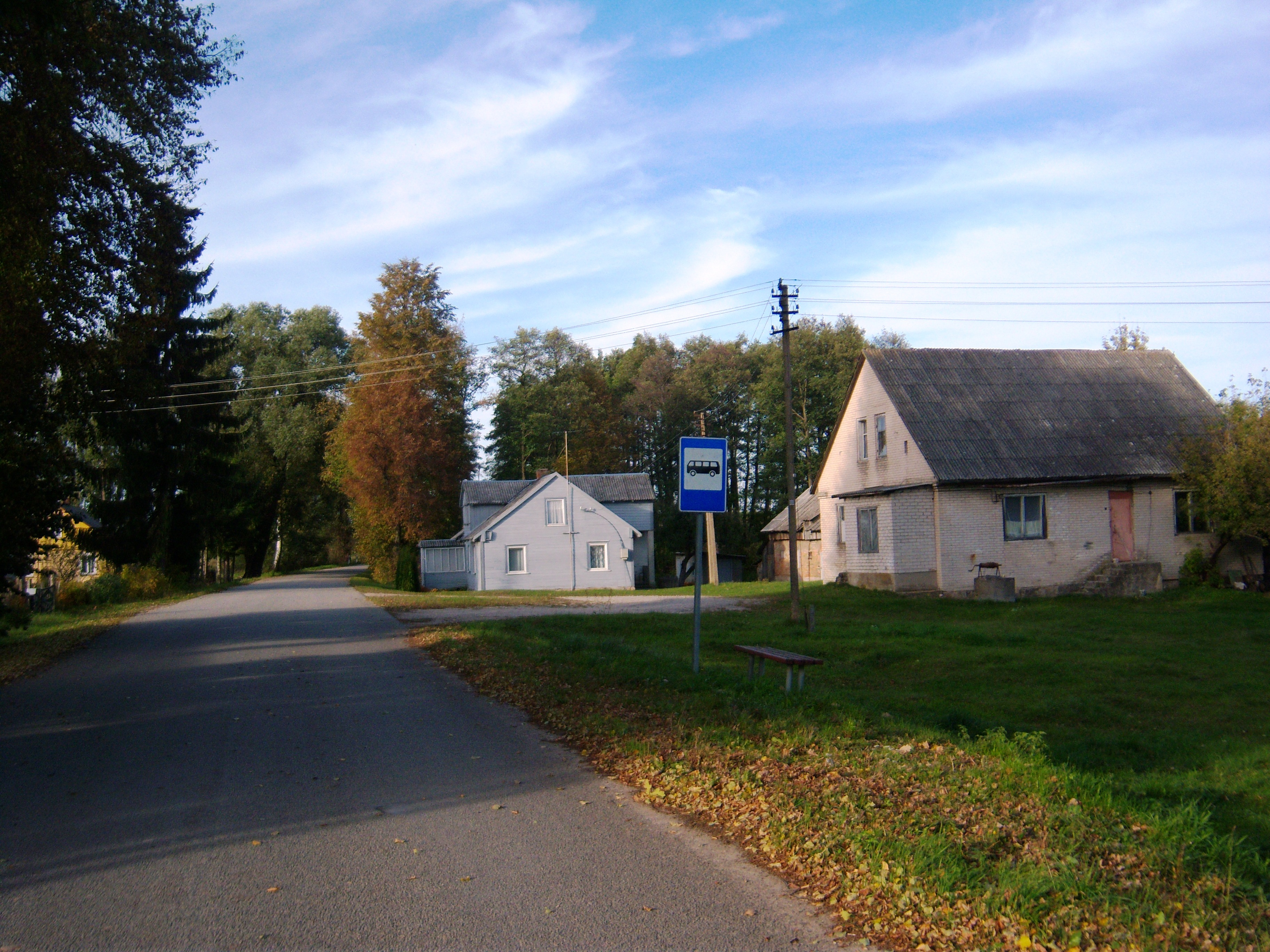 Alksninė, Vilkaviškis District, Lithuania